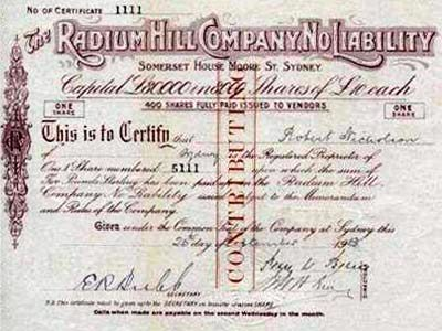 Share certificate dated 1913 from Radium Hill